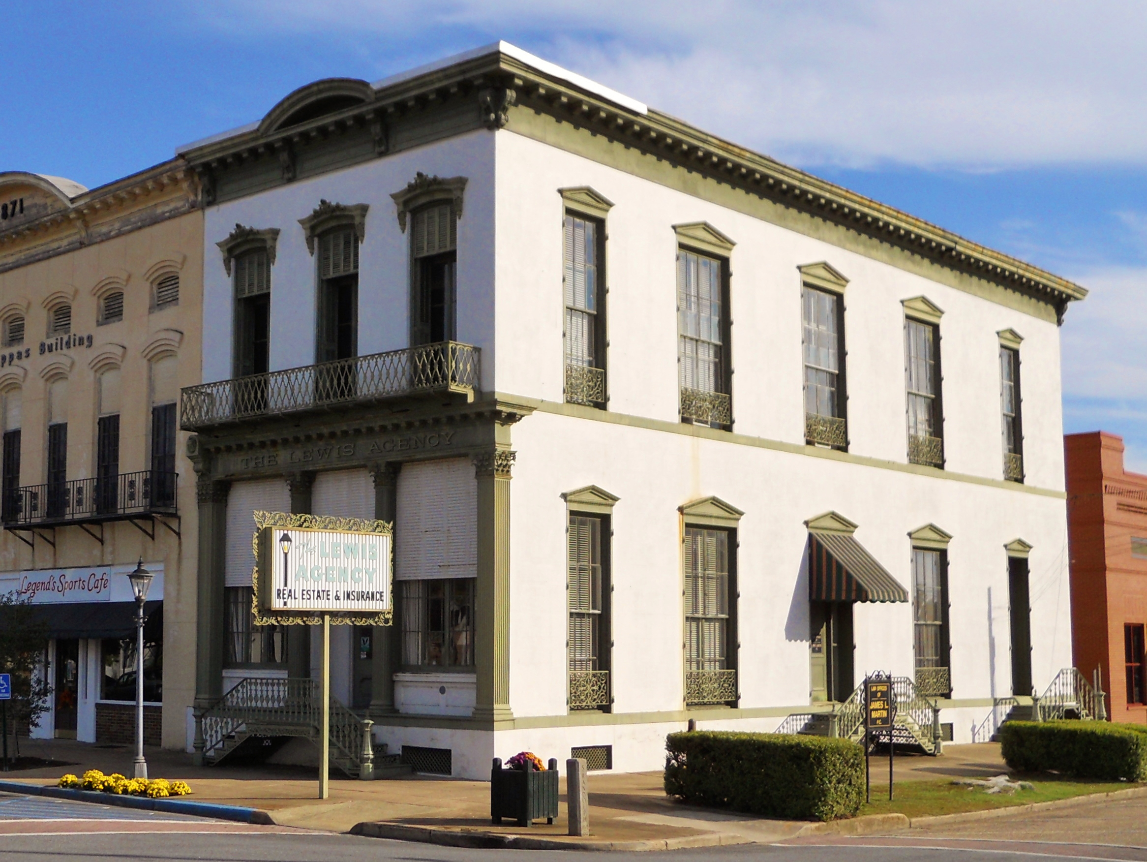 This is a photo of the McNab Bank Building in Eufaula, Alabama.